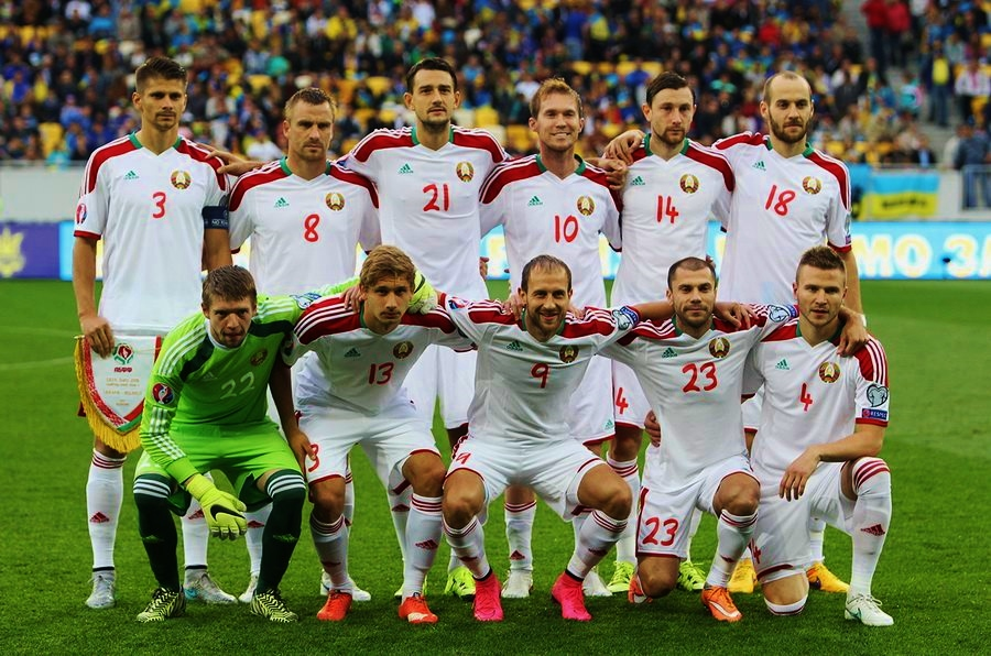 Belarus national football team